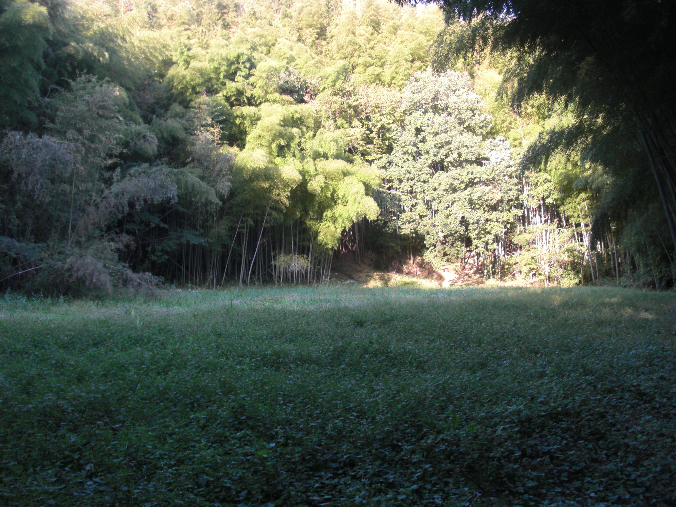 This is the site of Matsuoka castle in Takahagi, Ibaraki, Japan.